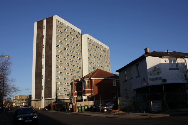 Church Street, Shirley Looking across Church Street, with the fifteen-storey Shirley Towers in the background.